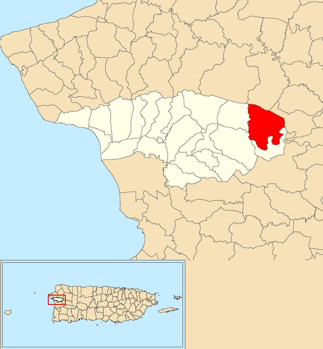 Corcovada, Añasco, Puerto Rico locator map